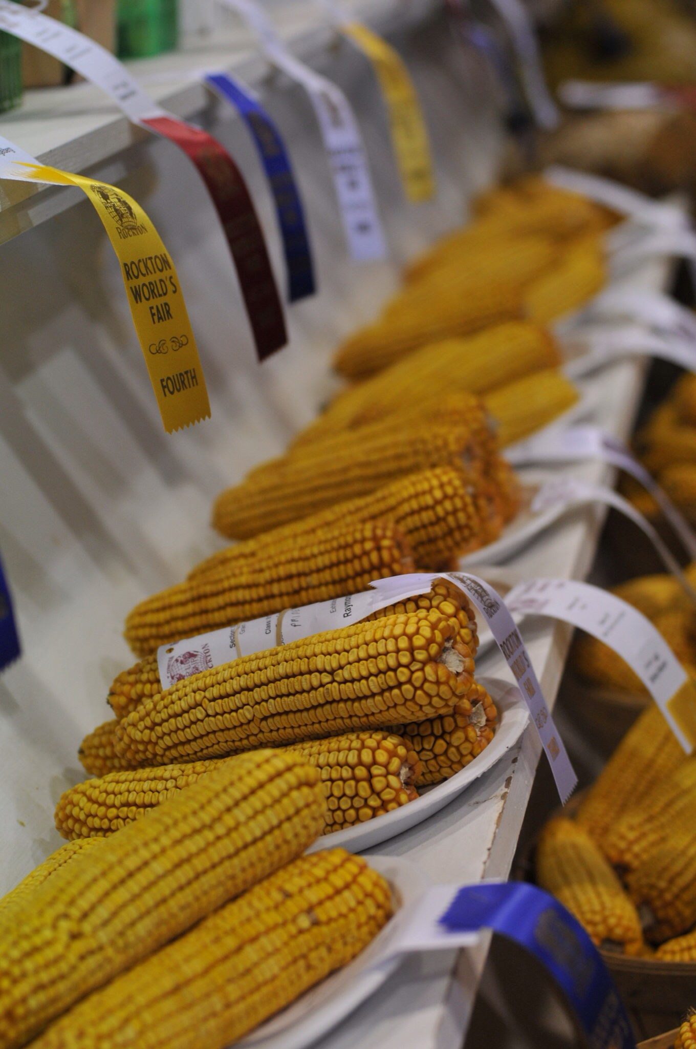 The Rockton's World Fair, an annual harvest festival in Southern Ontario, Canada. The title of this work at its source is: Prize Corn.